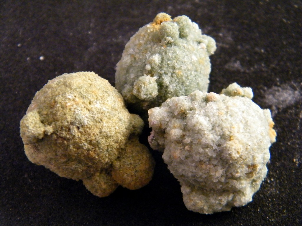 Glauconitic nodules (Dimensions: 2 cm diameter) Locality: Juda, Green County, Wisconsin, USA Pale green aggregate of glauconitic quartz sand (“glauconite sand”) cemented by calcite, uncovered by road construction near Juda, Wisconsin, probably in sandstones of Ordovician age. Child photo of a few more of these specimens.